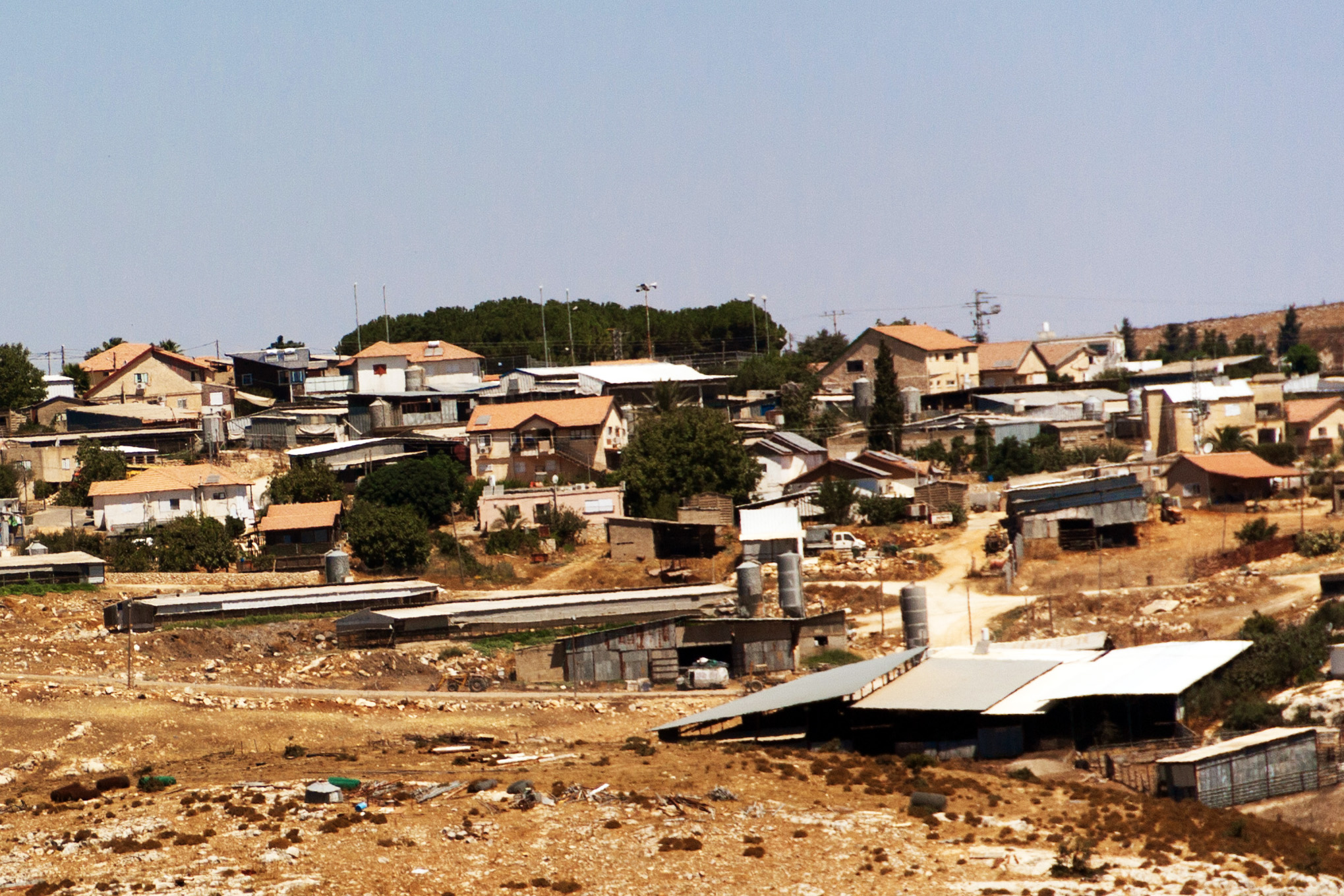 Dalton, from south